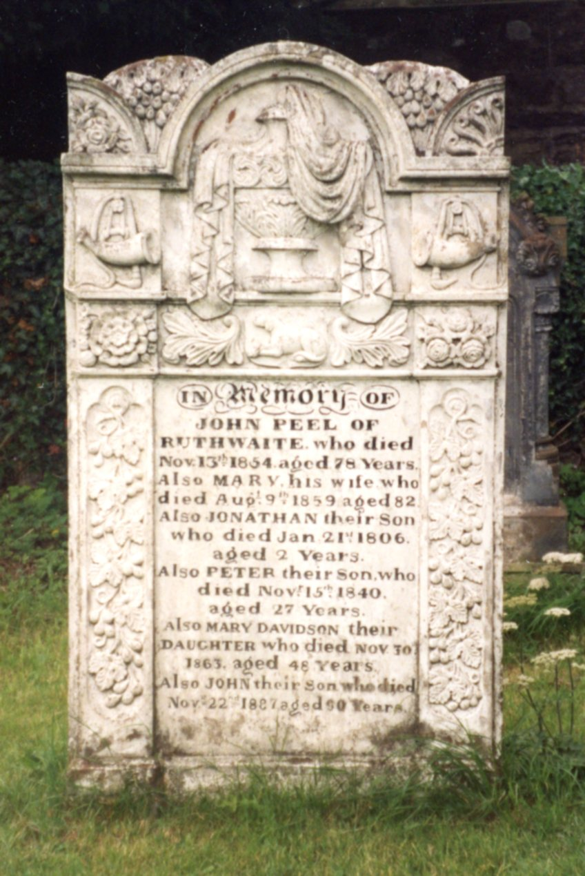 headstone of John Peel, farmer and huntsman, at the church cemetery of Saint Kentigrern Church in Caldbeck, Cumbria, England; died November 13, 1854. (from scan of photograph taken by Mark W. Barker, circa 1993)